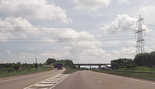 A180 eastbound at A160 junction